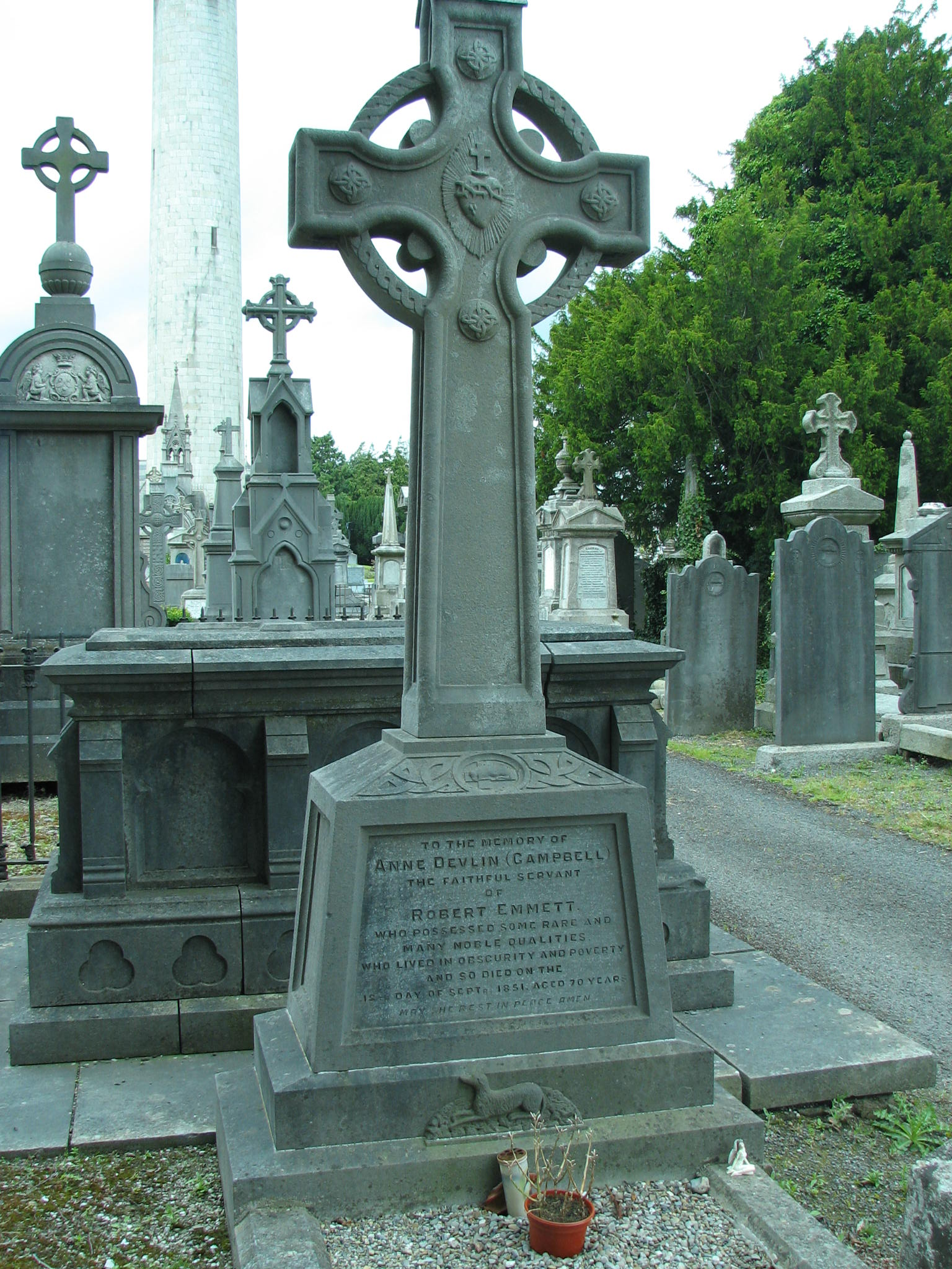 Anne Devlin (c. 1780-1851) was housekeeper to Robert Emmet and cousin to two leading United Irish rebels, Michael Dwyer and Arthur Devlin.